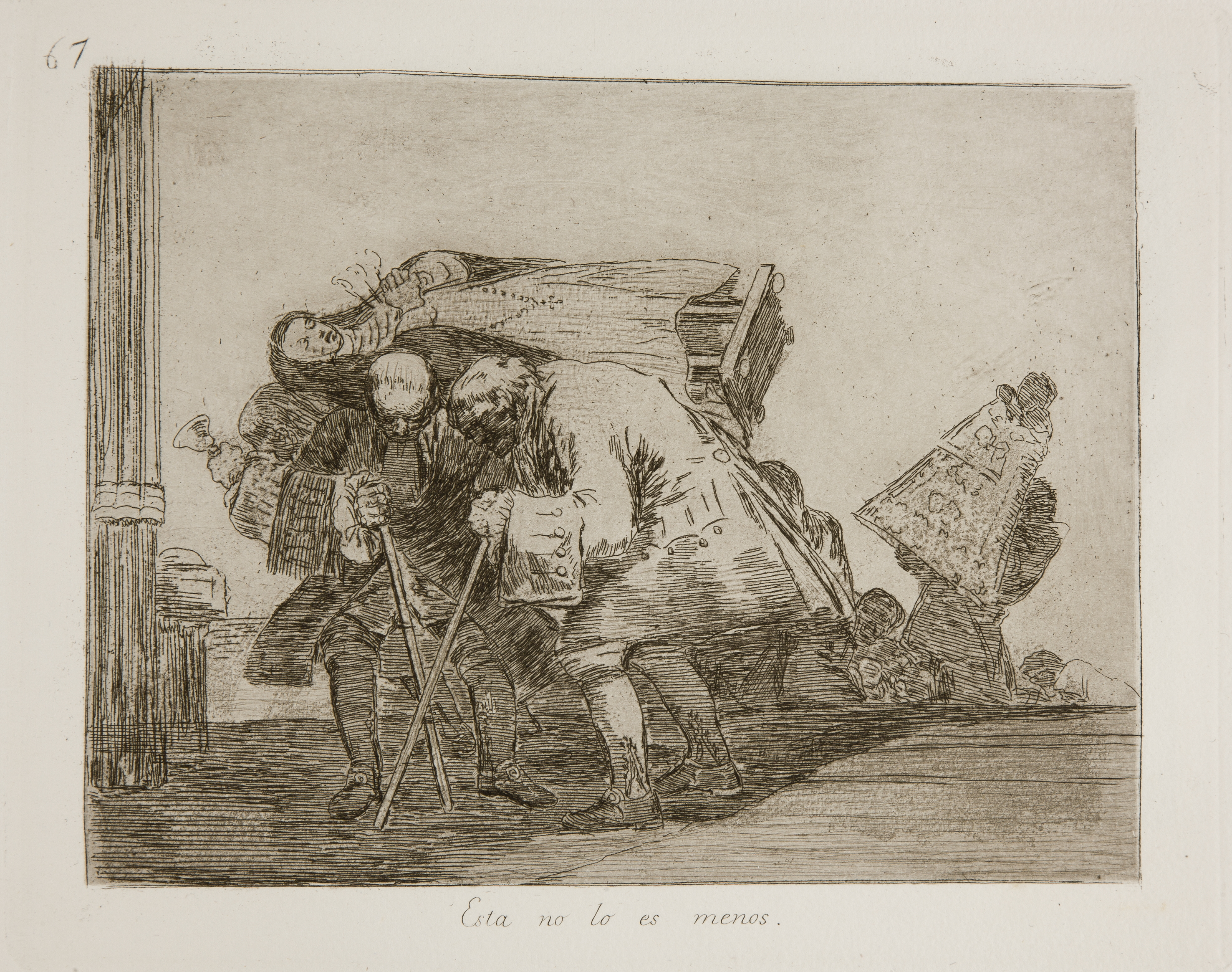 Los desastres de la guerra, plate No. 67, (1st edition, Madrid: Real Academia de Bellas Artes de San Fernando, 1863)